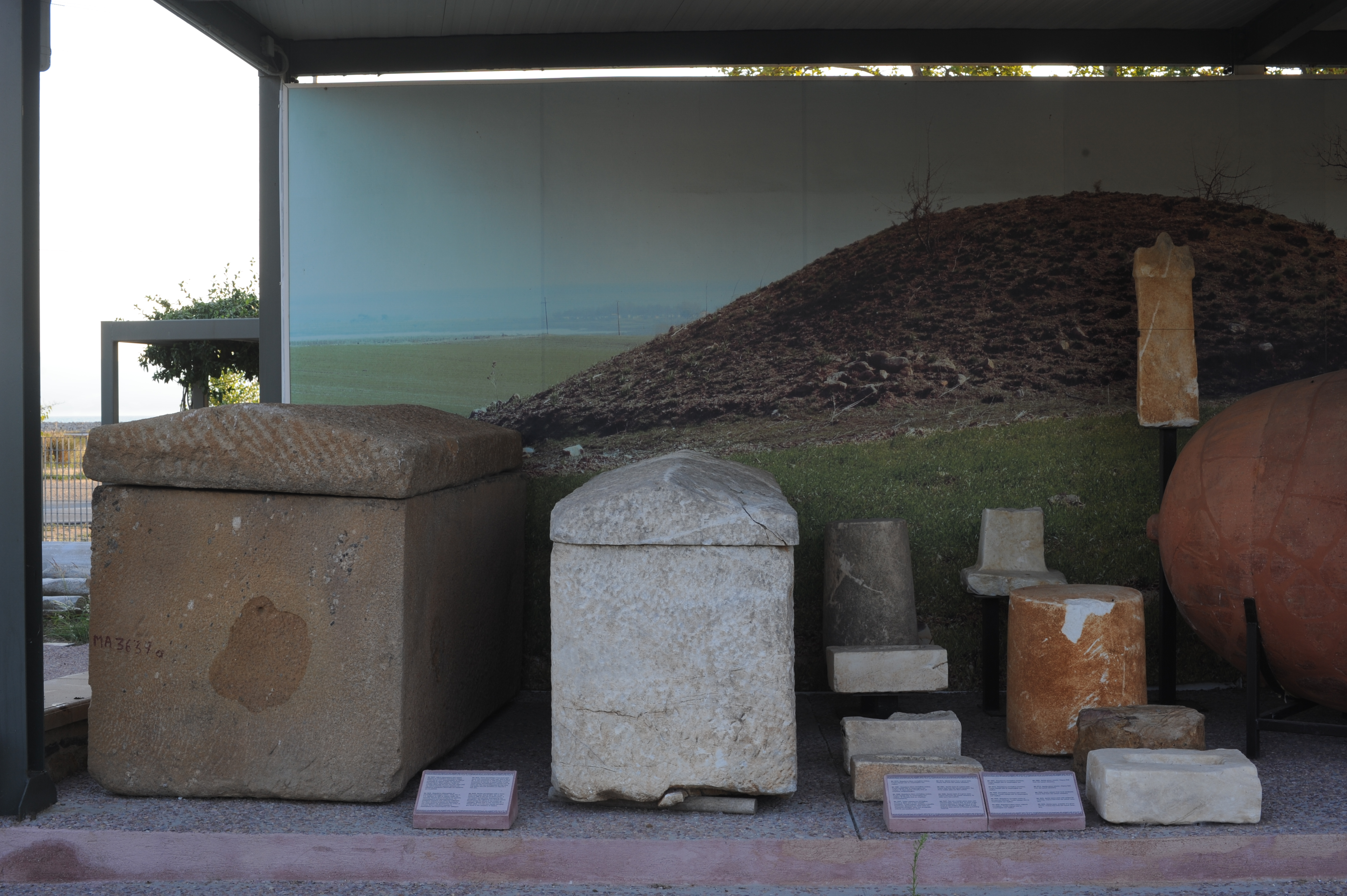 Stone Sarcophagus at archeological site of Abdera, Xanthi, Thrace, Greece.